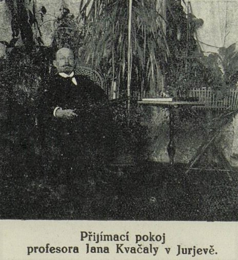 Jan Kvačala, Slovak comeniologue, before 1921, Tartu, Estonia